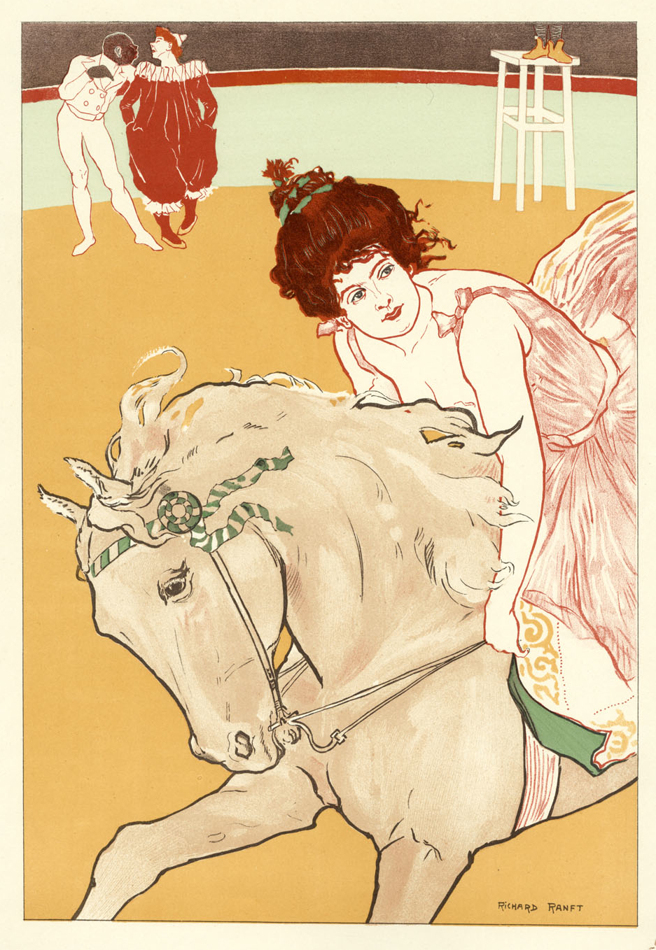 L'Ecuyère by Richard Ranft, lithographic print for L'Estampe moderne, vol. 1, 1897, F. Champenois.